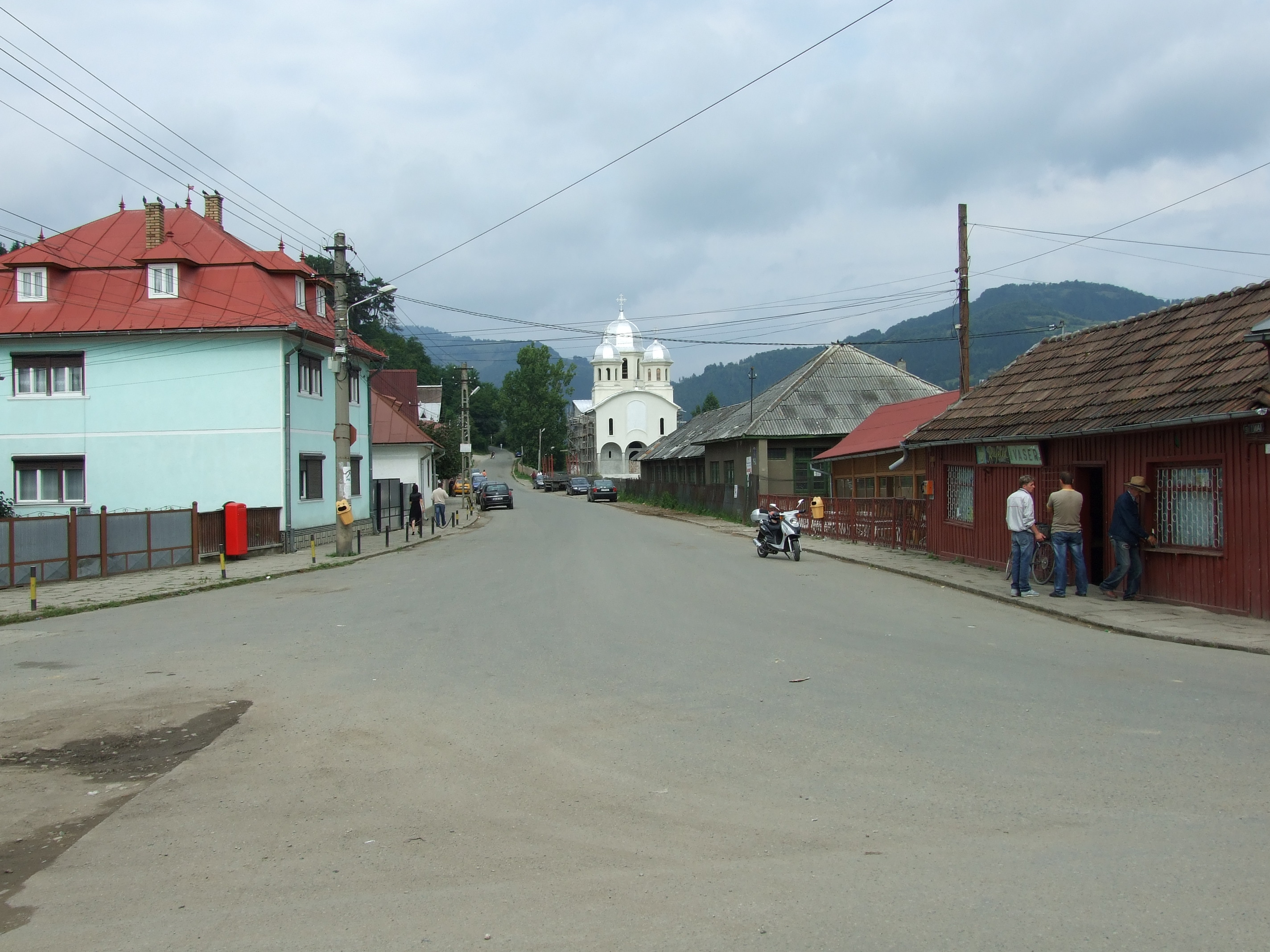 Vişeu de Sus town, Maramureş county, Romaniahelp